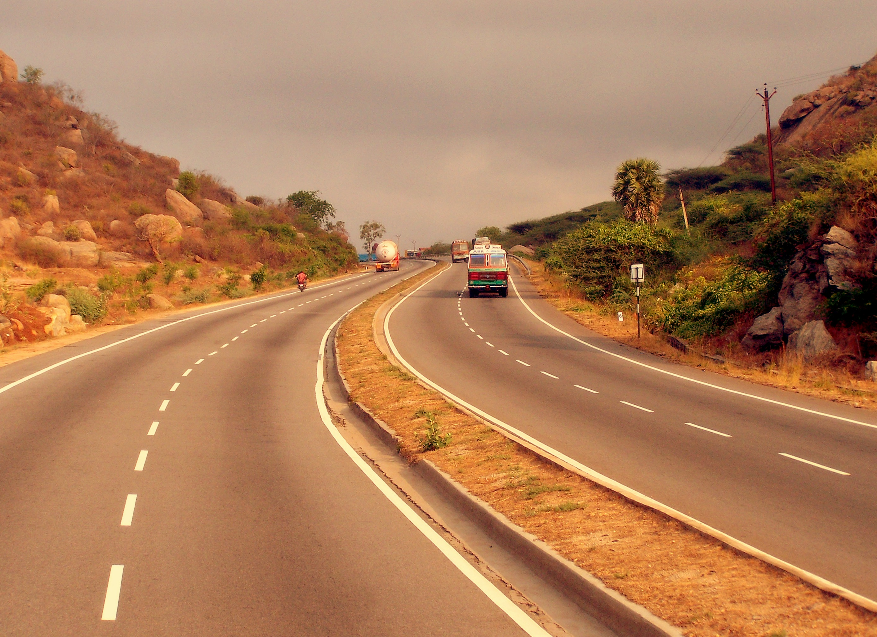 Part of the 'Golden Quadrilateral' road to Bangalore from Chennai. Taken from the moving bus. The light is as it was....no photoshop....ain't it amazing ?